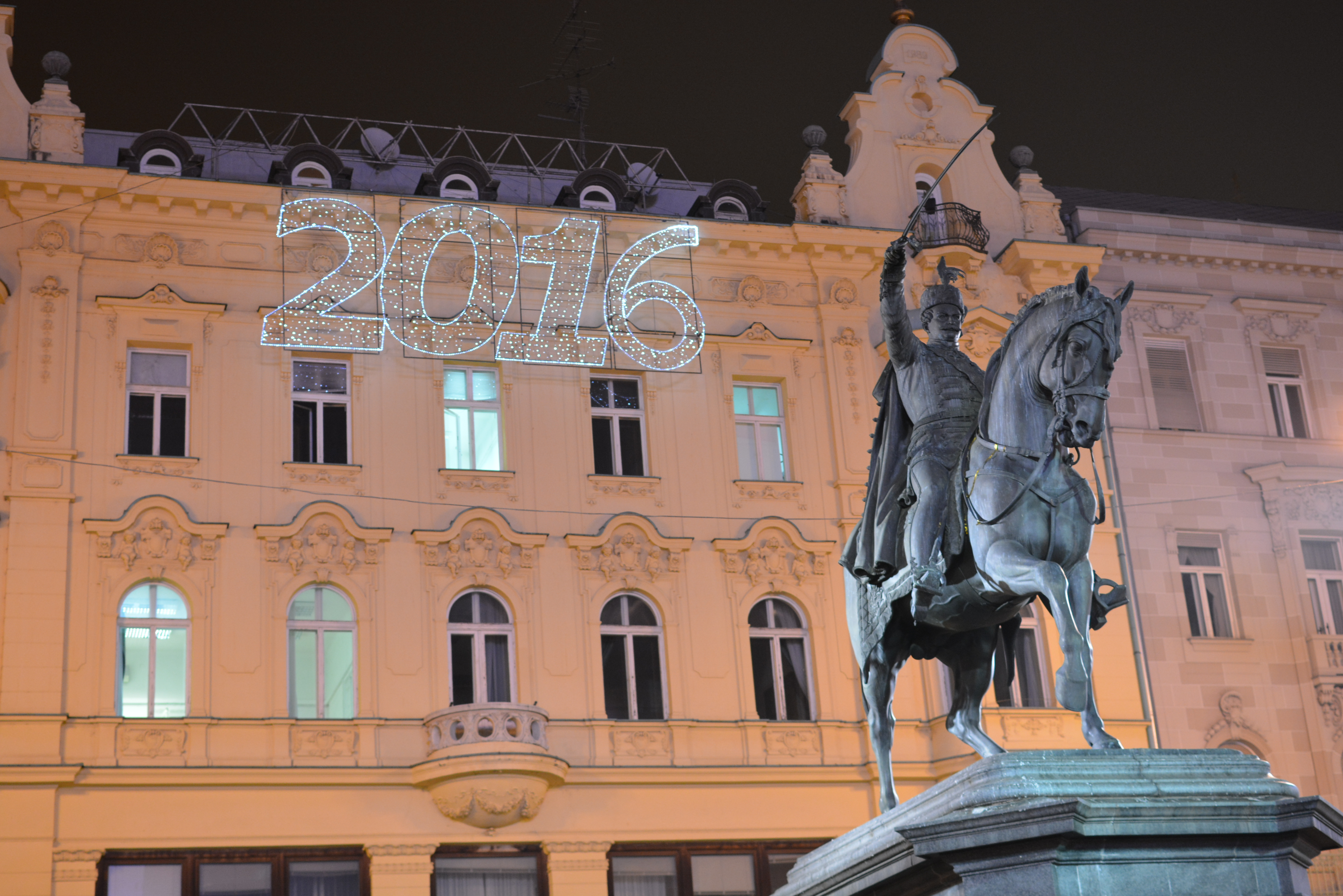 Ban Jelačić statue, Zagreb.